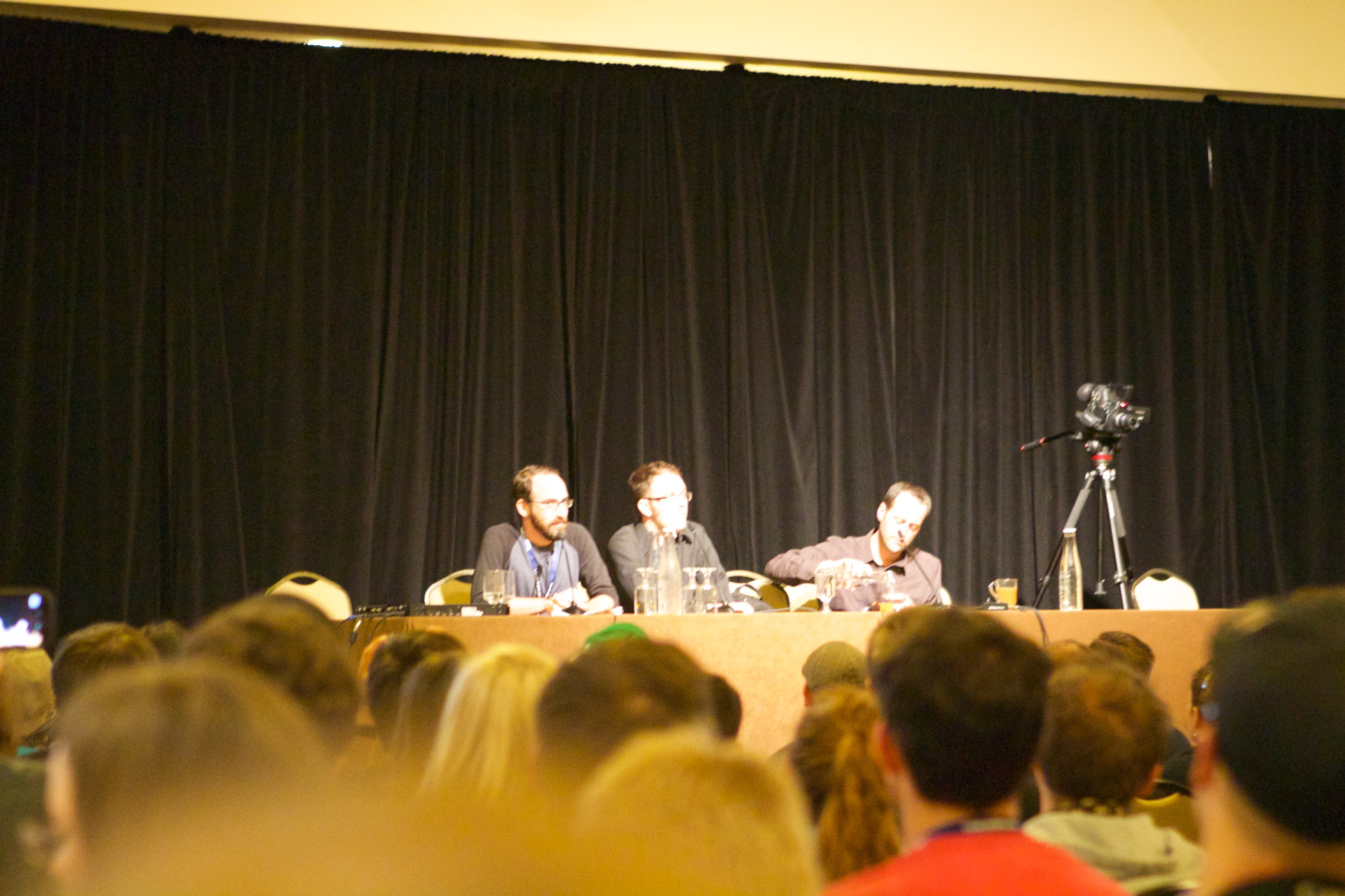 A panel at PAX Prime 2014, possibly the panel for the Angry Video Game Nerd screening?